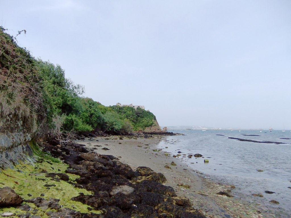 The cliff-top site of Sandsfoot Castle